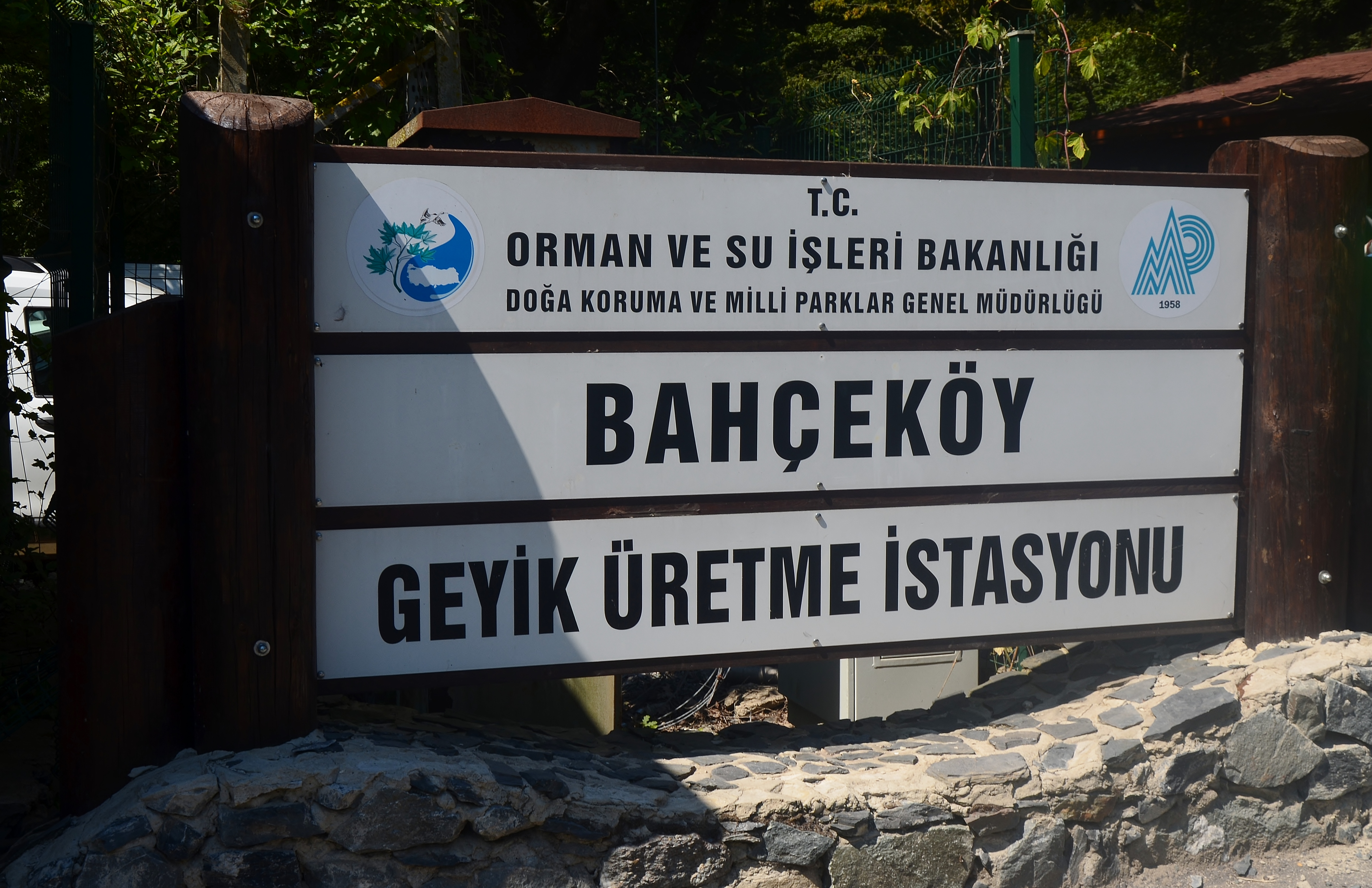 Deer farm in the Belgrad Forest at Sarıyer, Istanbul, Turkey